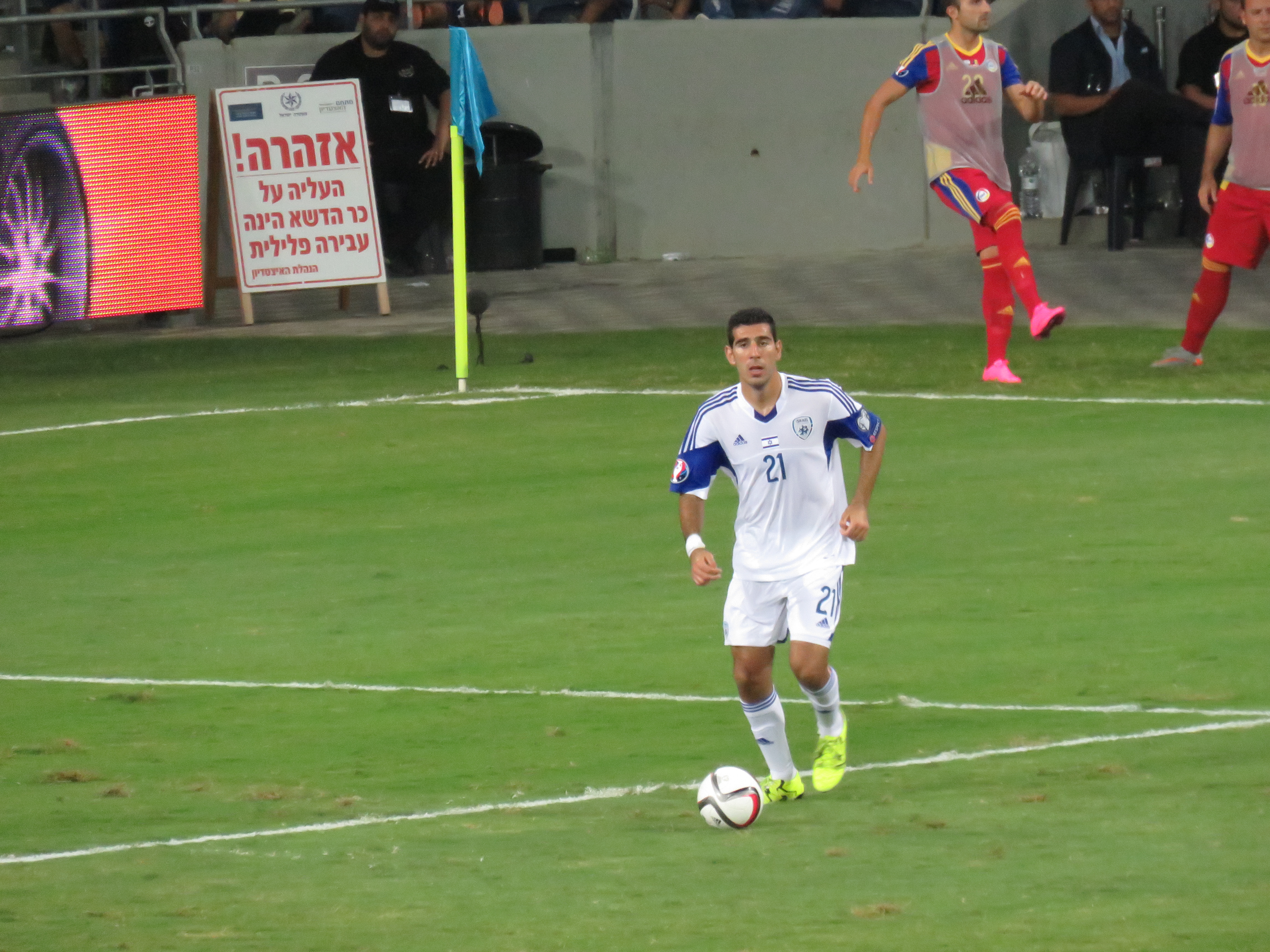 Israel vs. Andorra - September 3, 2015